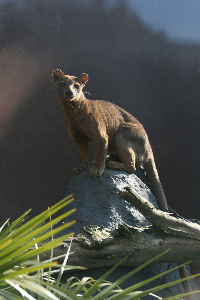 Very odd animal at a really good "zoo".